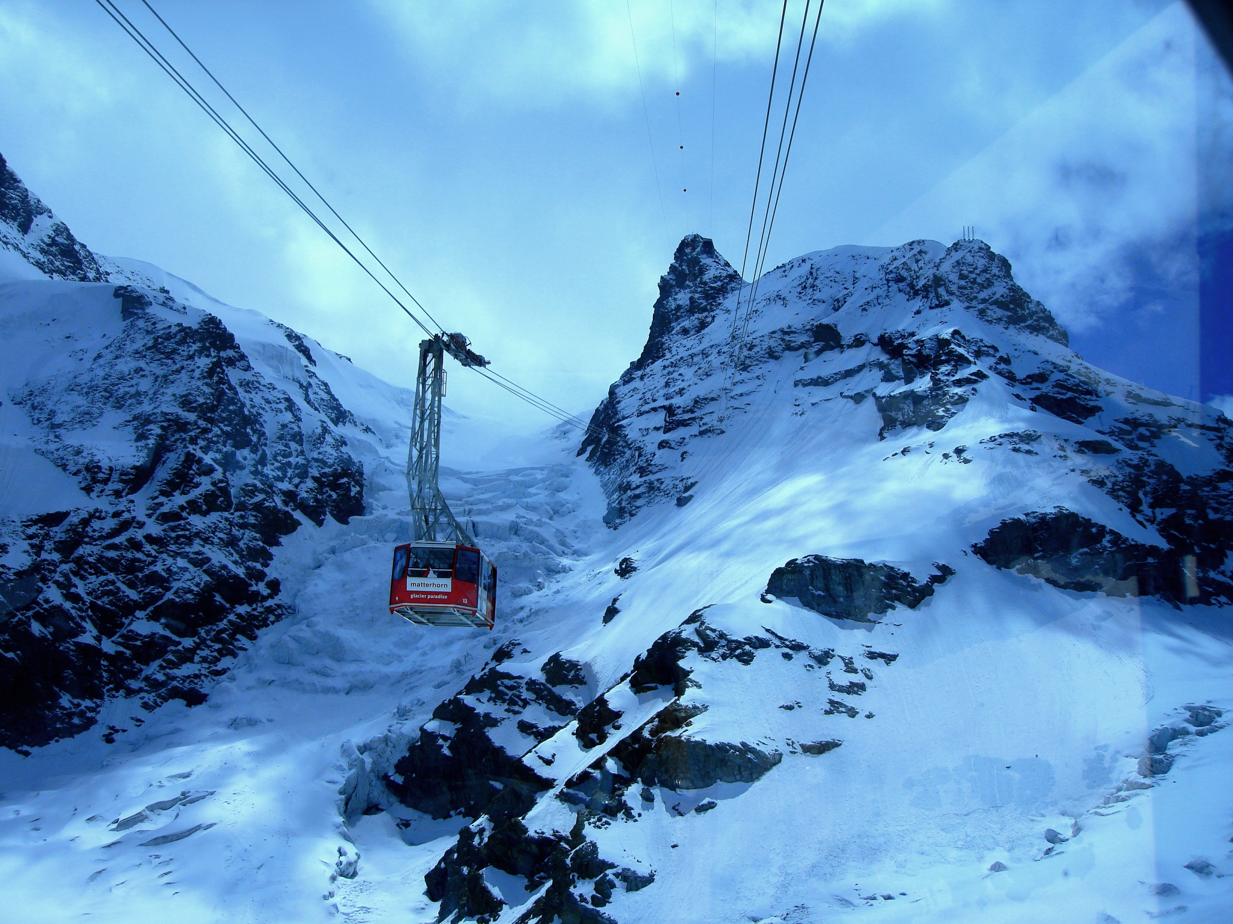 Klein Matterhorn, Zermatt